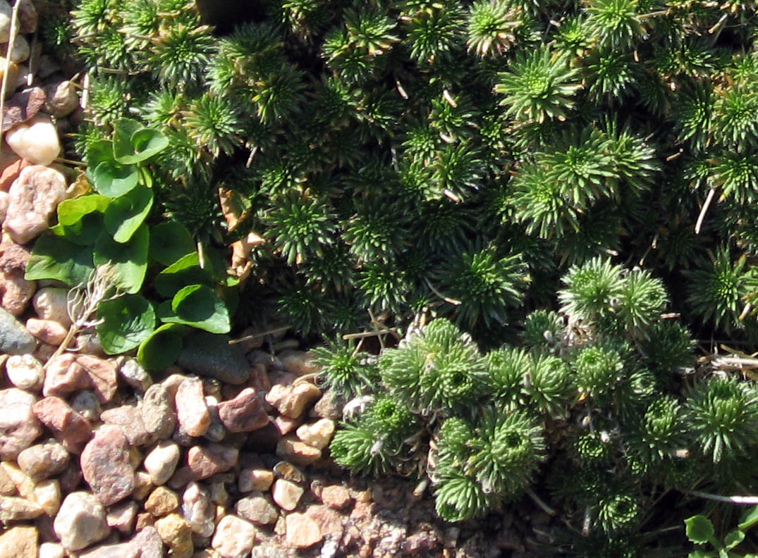 Draba hispanica photographed at the Denver Botanic Gardens.